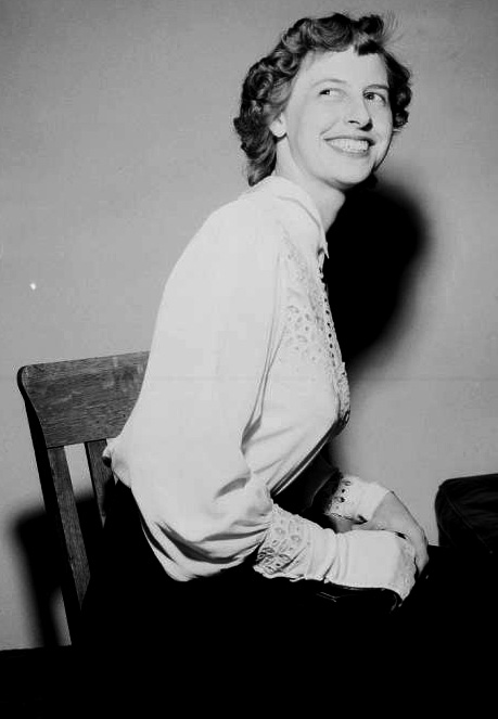 Sara Northrup Hubbard, also known as Sara Northrup Hollister; 2nd wife of L. Ron Hubbard